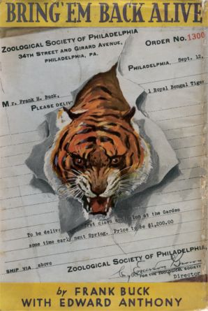 Cover of the original book "Bring 'Em Back Alive" 1930, illustration by Kurt Wiese